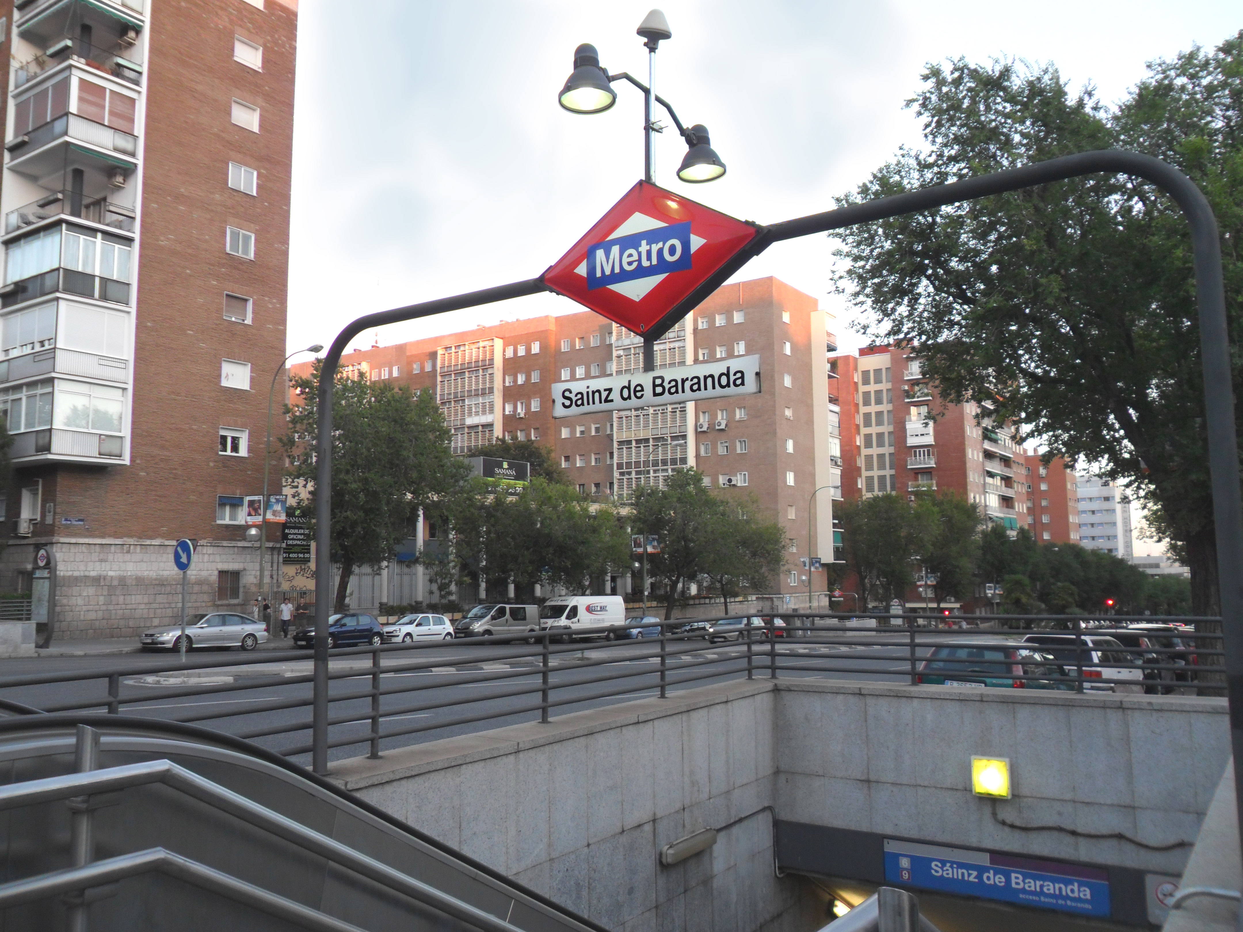 Entrance of Sainz de Baranda metro station in Madrid (Spain).